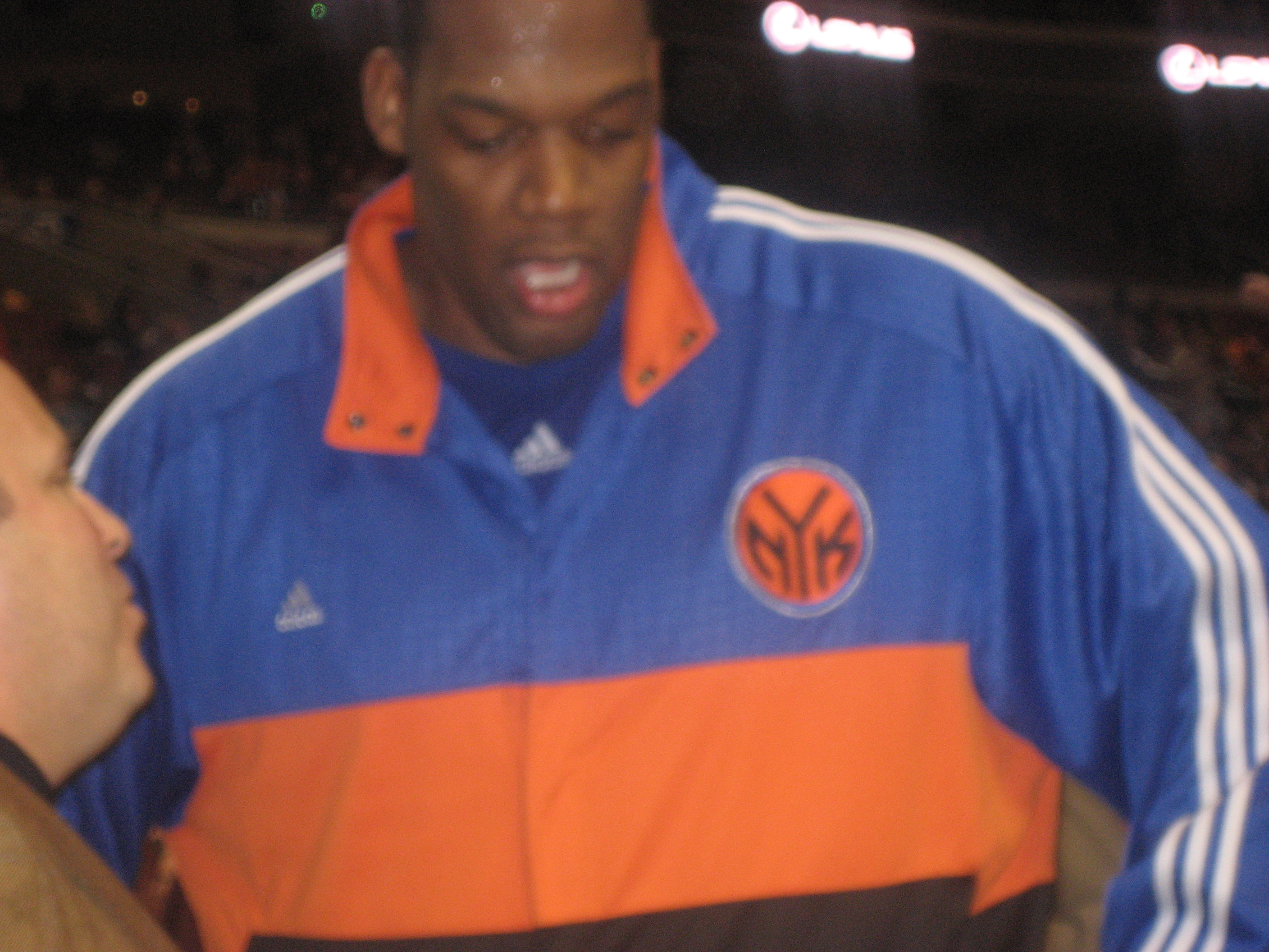 This picture was taken by me at a game.